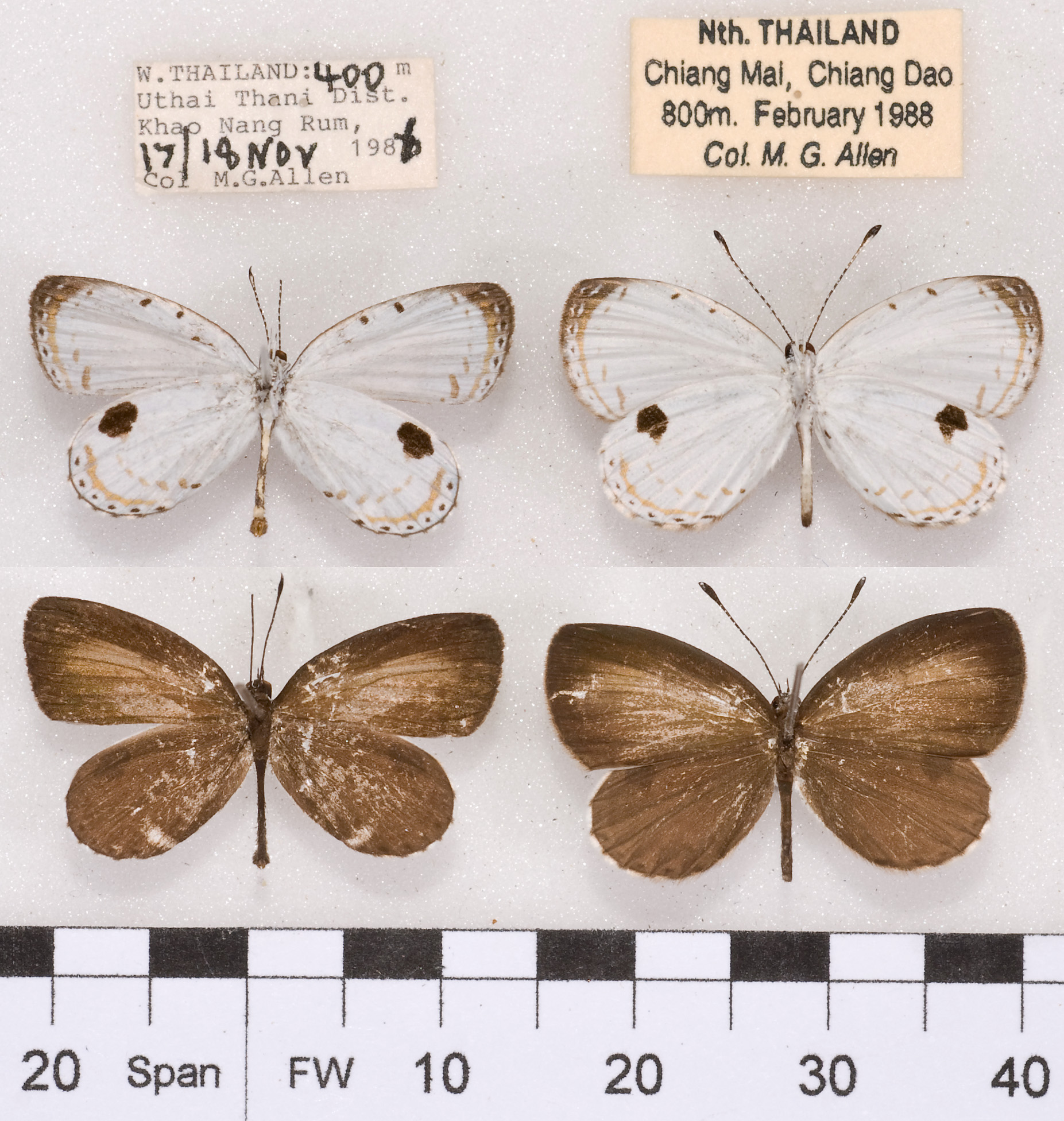 Pithecops corvus correctus, male, female, set specimens, Thailand, Alan Cassidy photo.